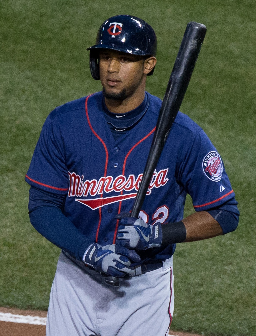 Minnesota Twins Center Fielder Aaron Hicks – Minnesota Twins at Baltimore Orioles April 6, 2013